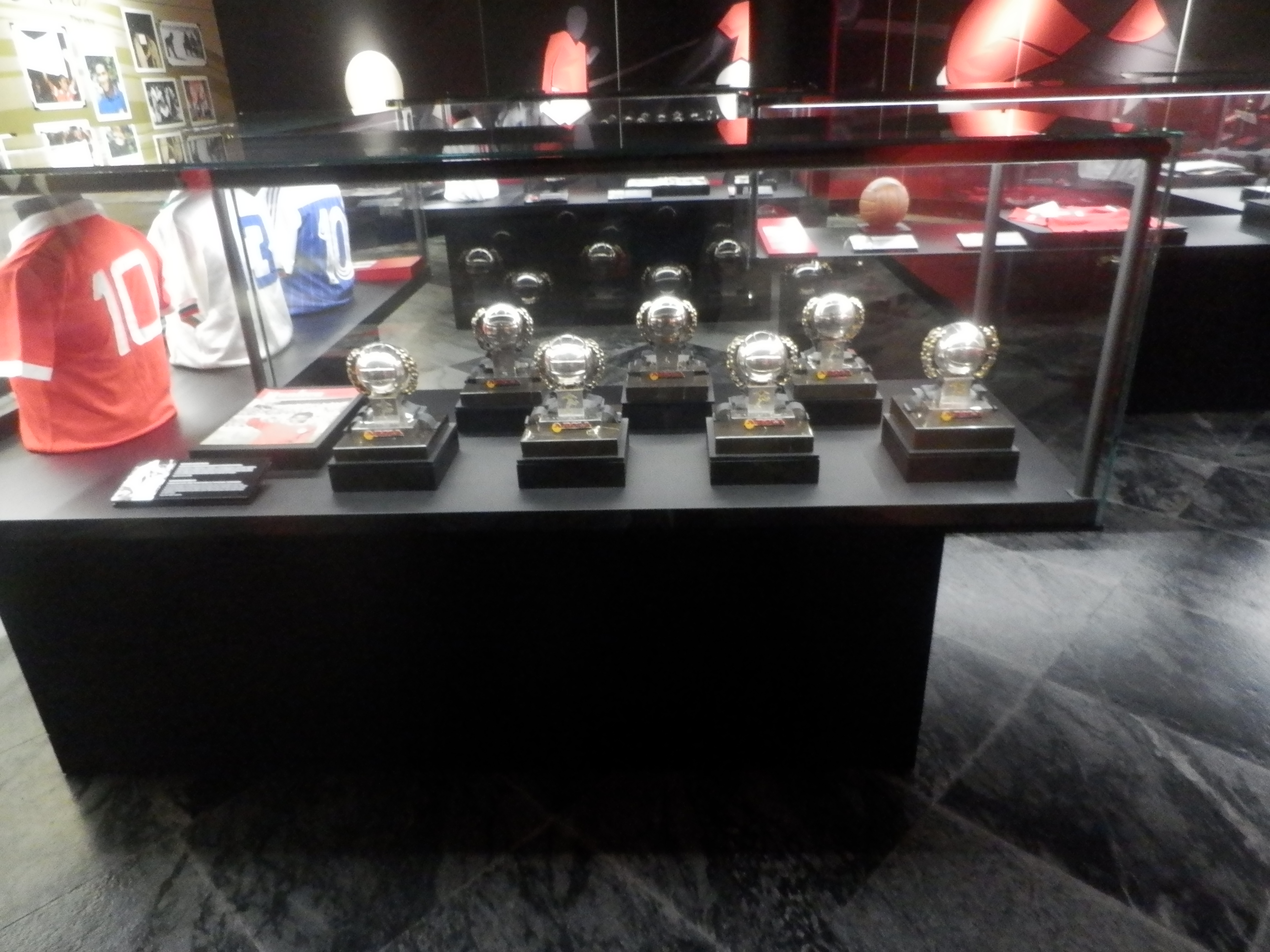 Won 7 Silver balls, in 1964, 1965, 1966, 1967, 1968, 1970, 1973